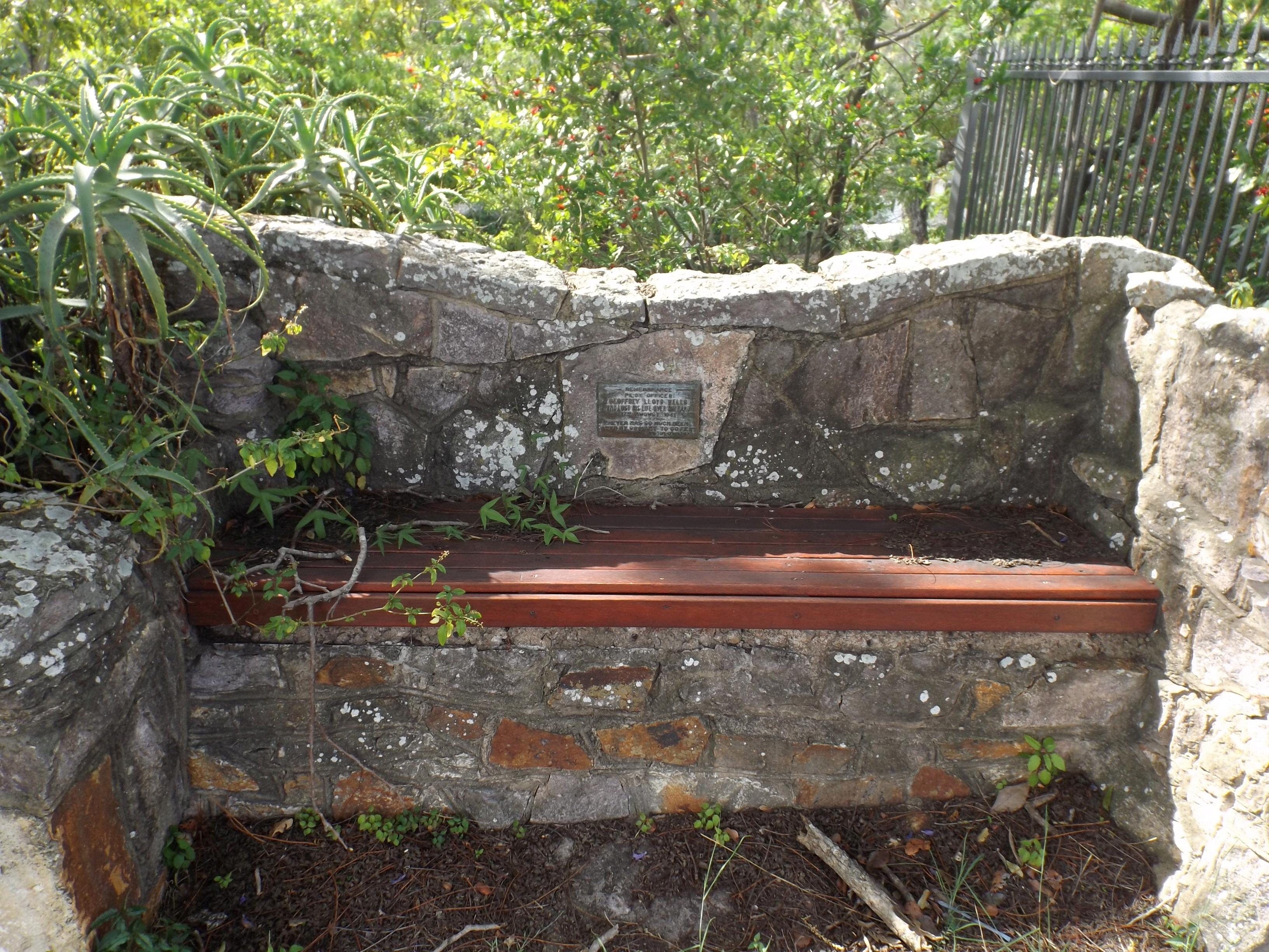 Photo of Pilot Officer Geoffrey Lloyd Wells Memorial Seat at Taringa, Brisbane, Queensland, Australia.